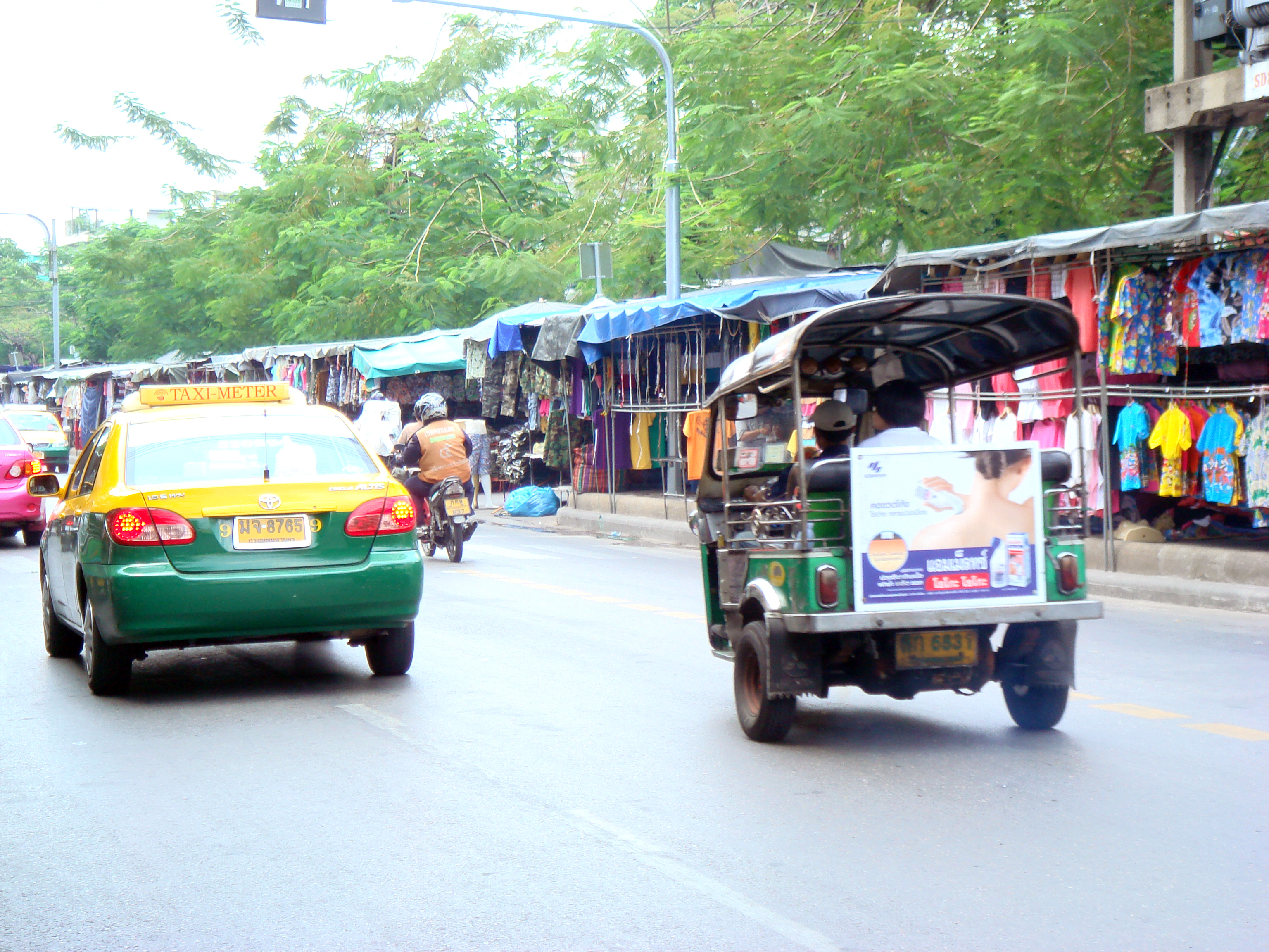 Street vendors at Bobae Market